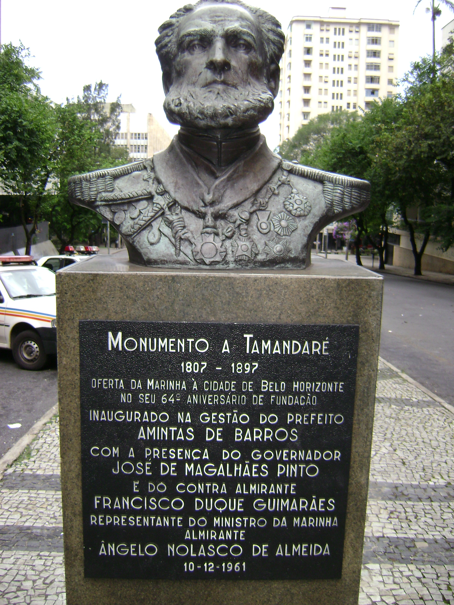 Monumento à Tamandaré, na Avenida Álvares Cabral, em Belo Horizonte.